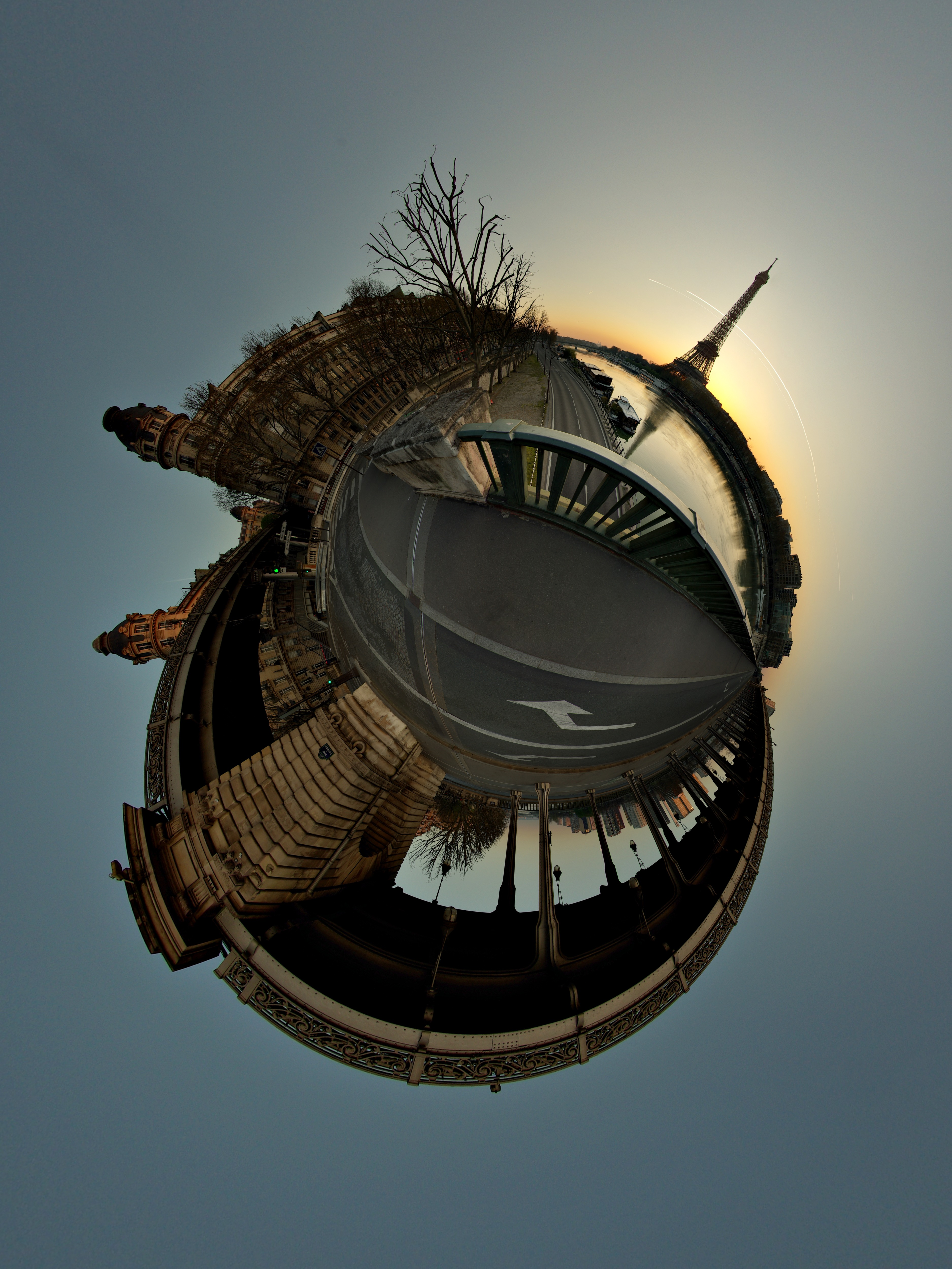 Paris s'éveille. Pont de Bir-Hakeim.